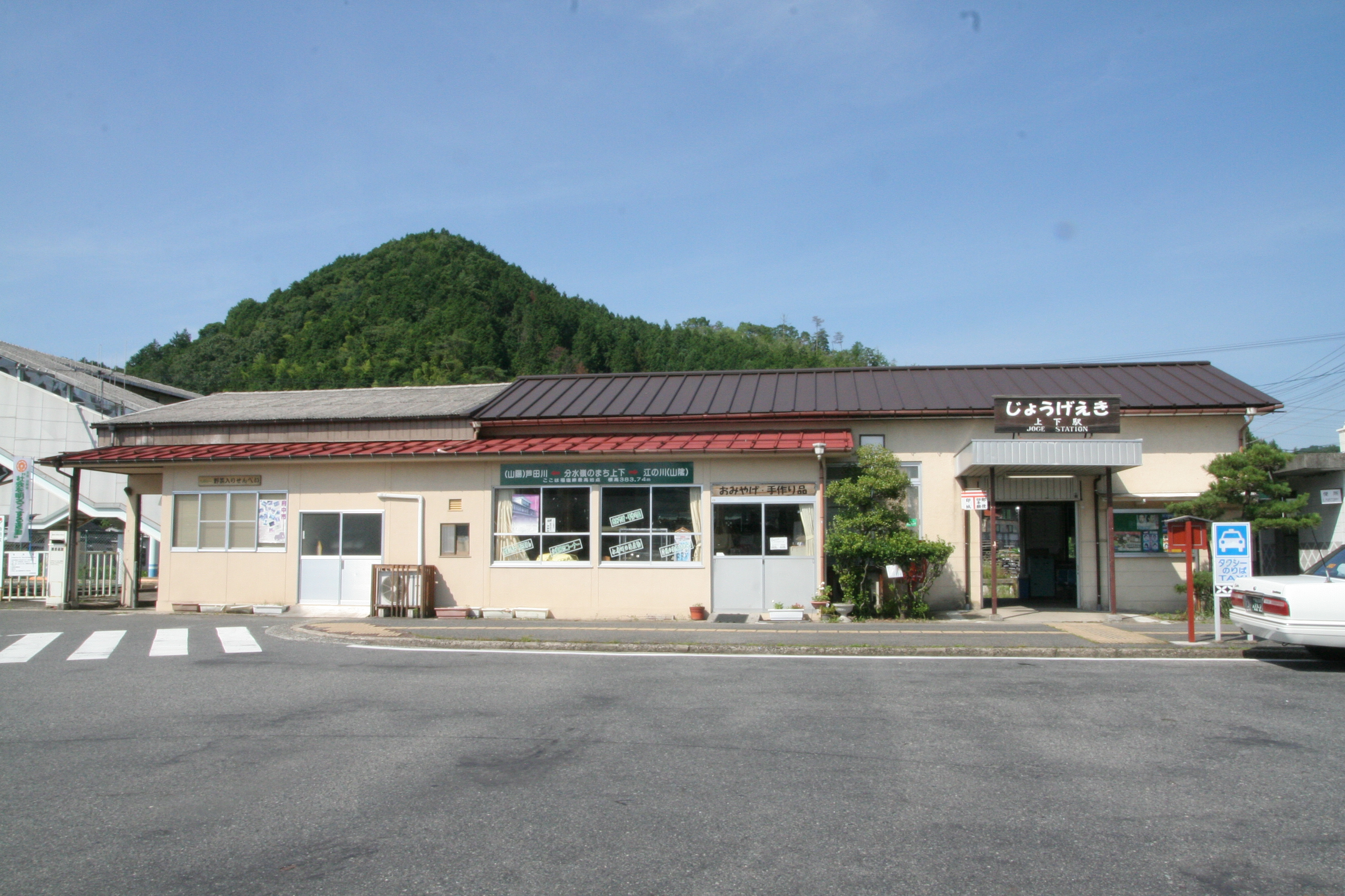 West Japan Railway Fukuen Line Joge Station